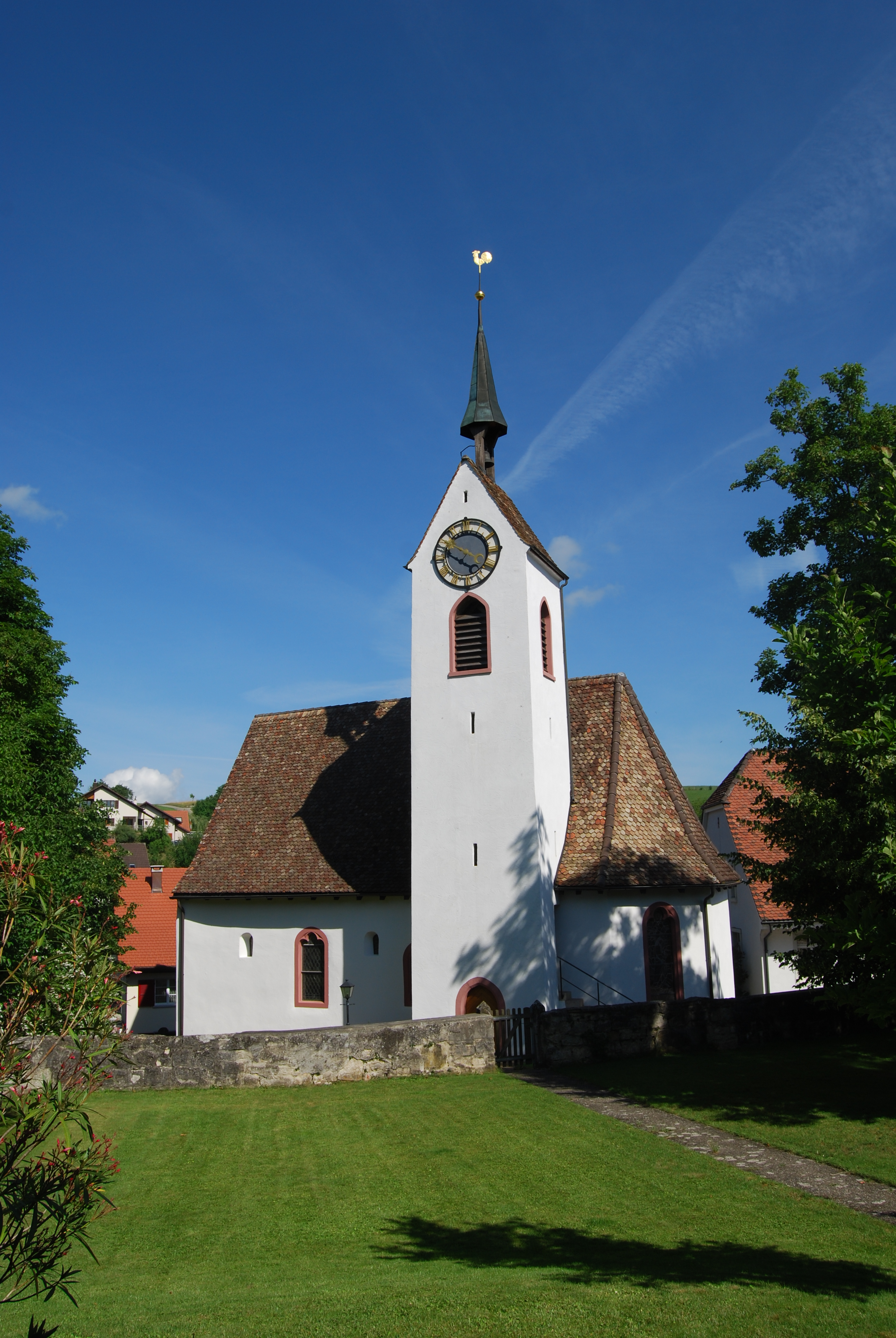 Church of Bennwil, canton of Basel-Country, Switzerland